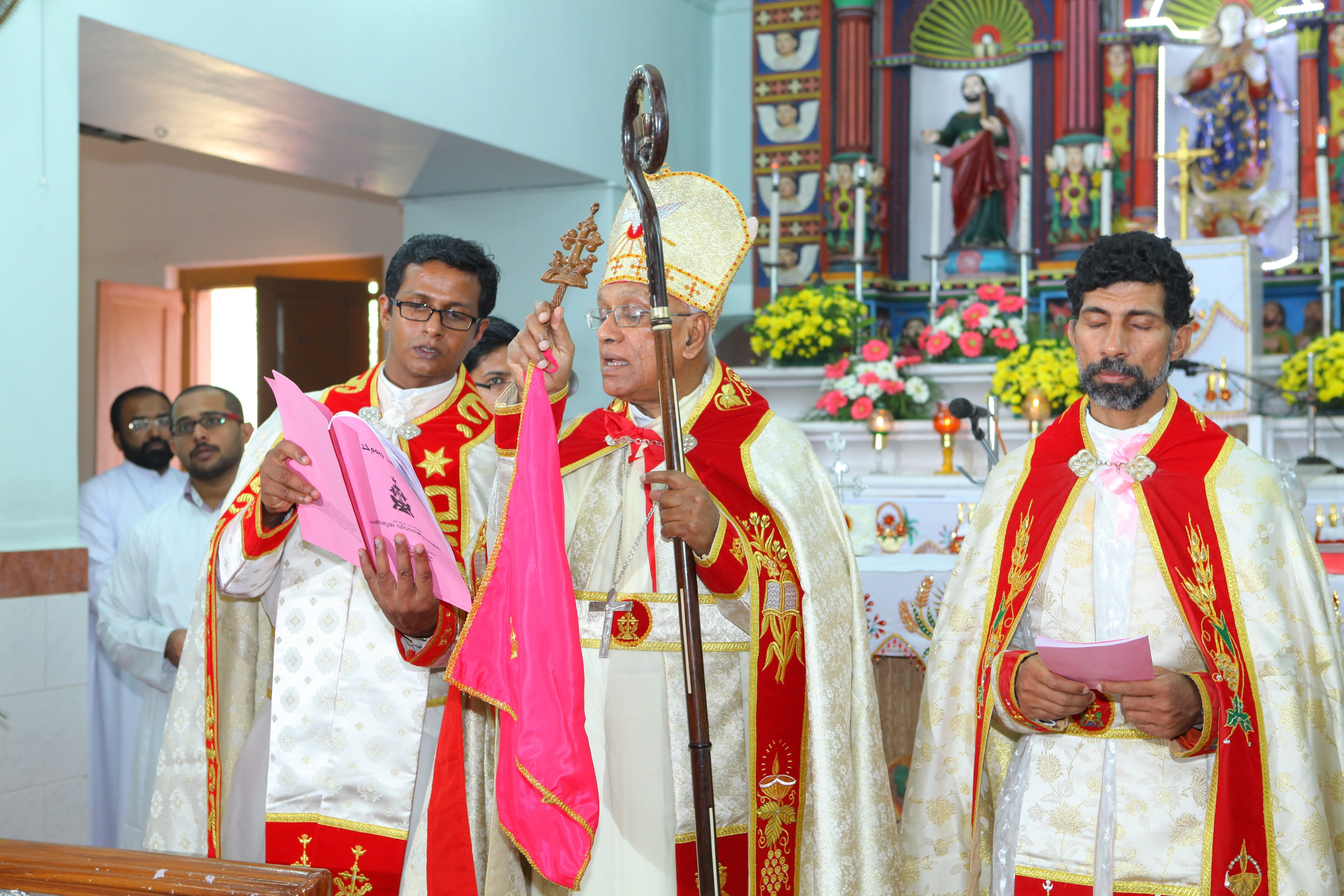 Mar Gregory Karotemprel and Payyappilly Palakkappilly Prasant Kathanar at Marth Mariam Church, Arakuzha